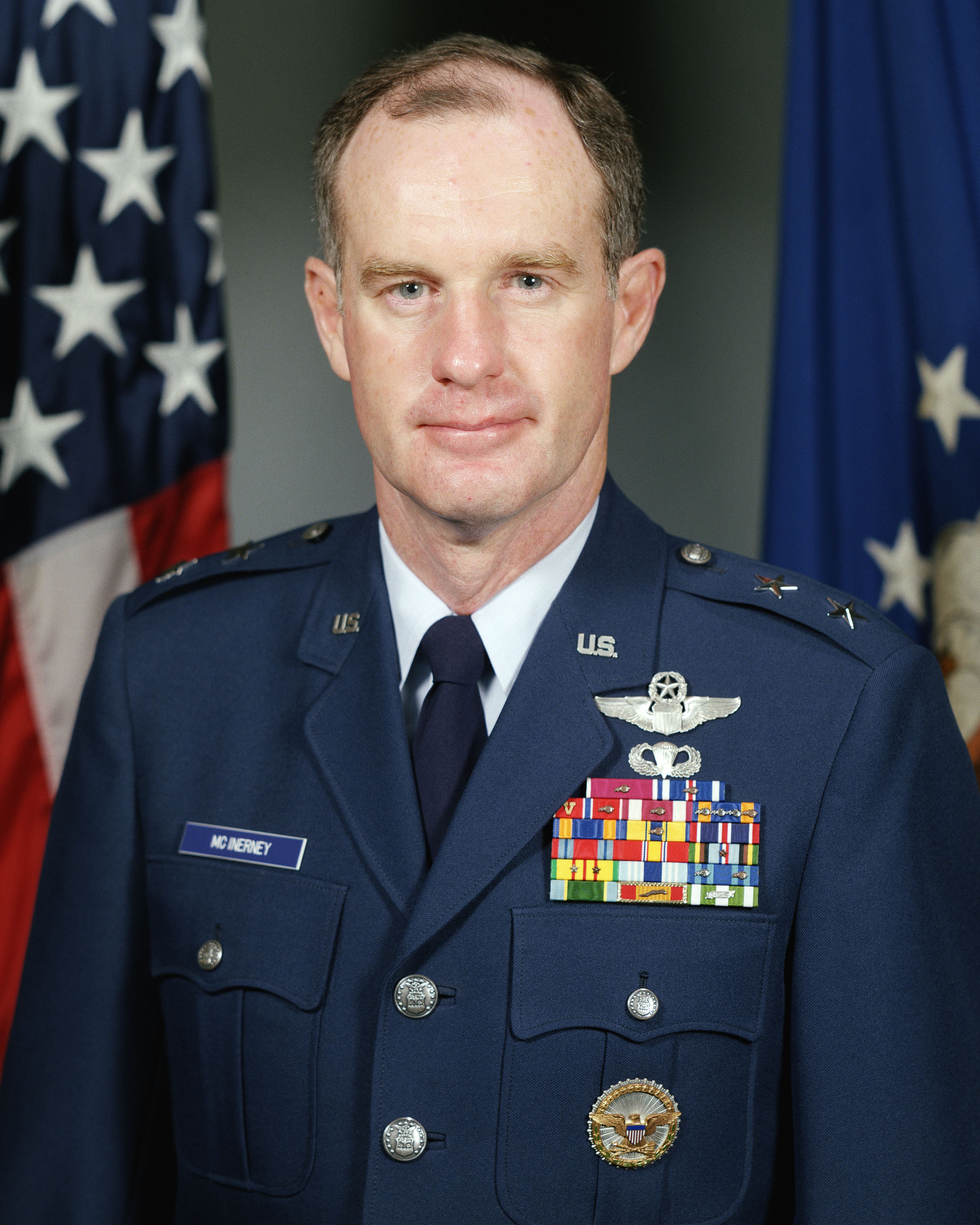 Lieutenant General Thomas G. McInerney as a Major General, USAF